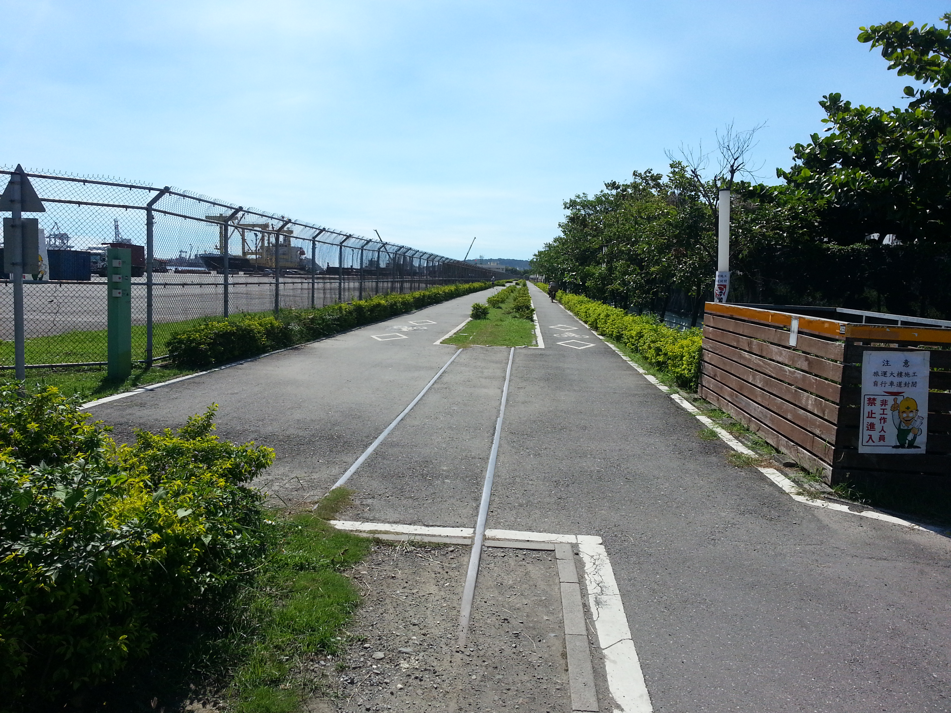 Future Kaohsiung Circular Line C8 station in July 2013